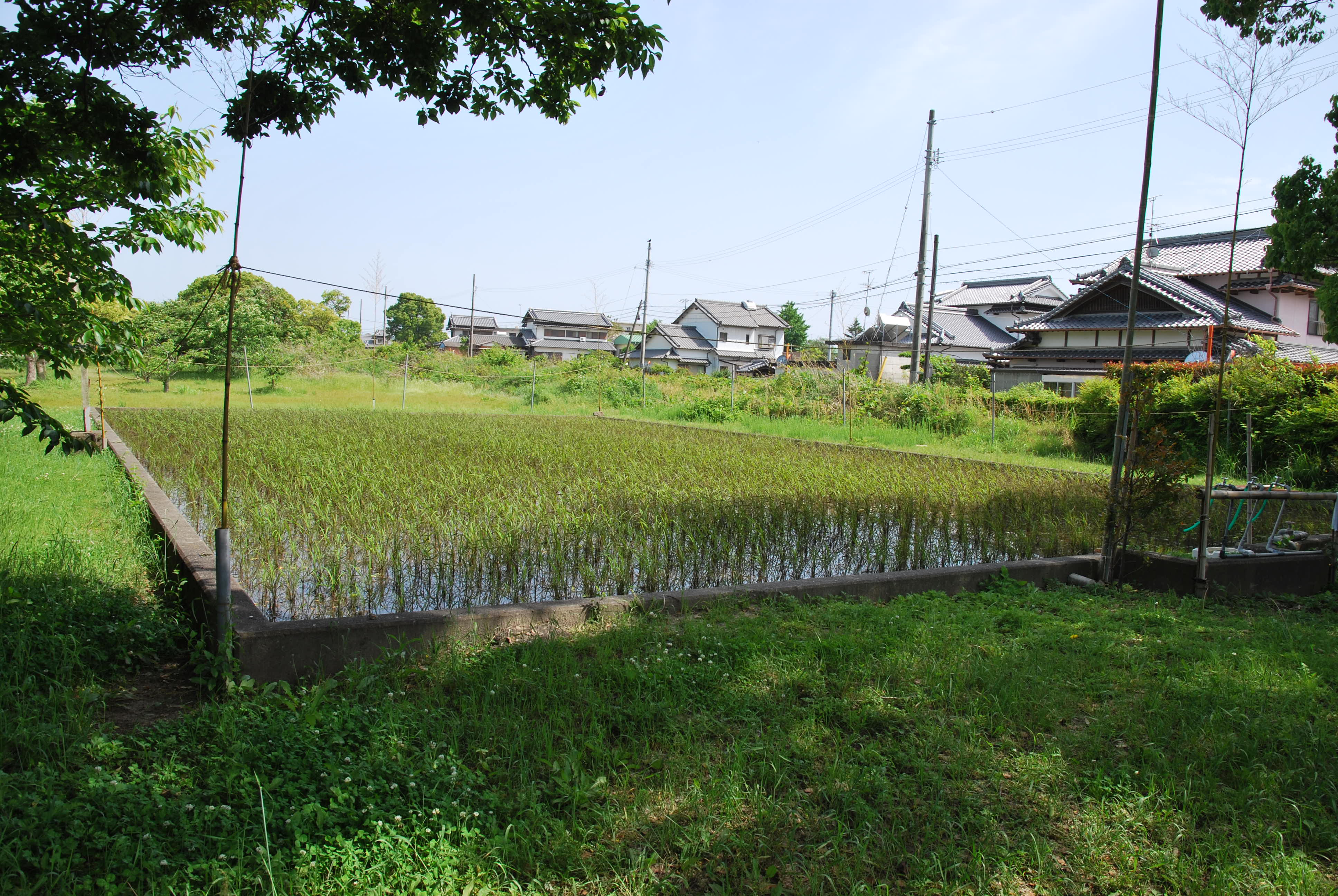 God's rice field, Wakamiya Hachiman-gū outer garden